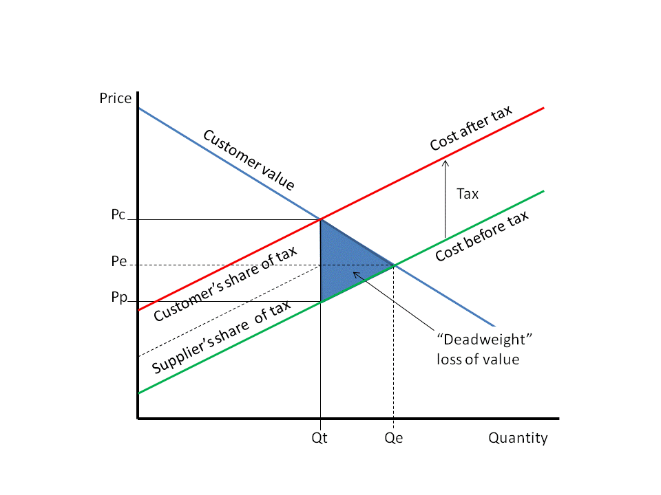 Diagram showing how tax is dispersed and deadweight loss of efficiency arises